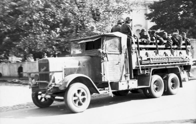 Henschel Typ 33 truck